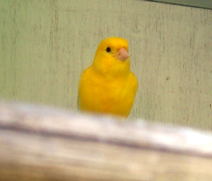 A canary bird in captivity. Photo taken by Fir0002.